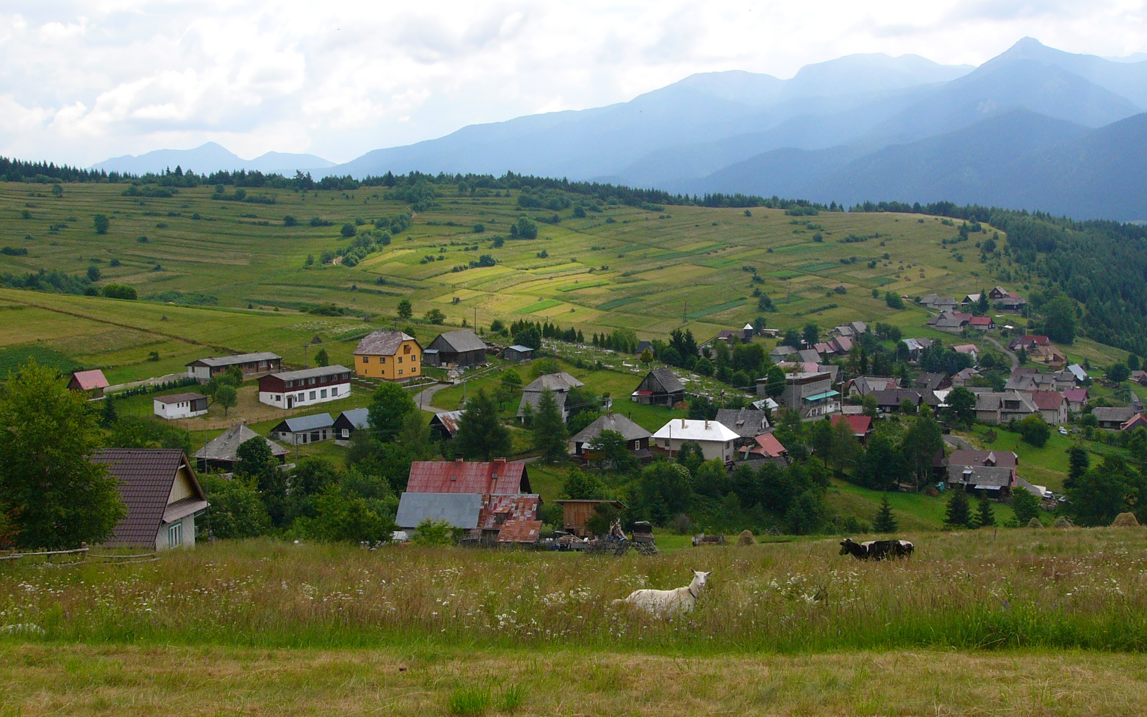 Malé Borové – upper end, Roháče (Sivý vrch) in the background, June 2008